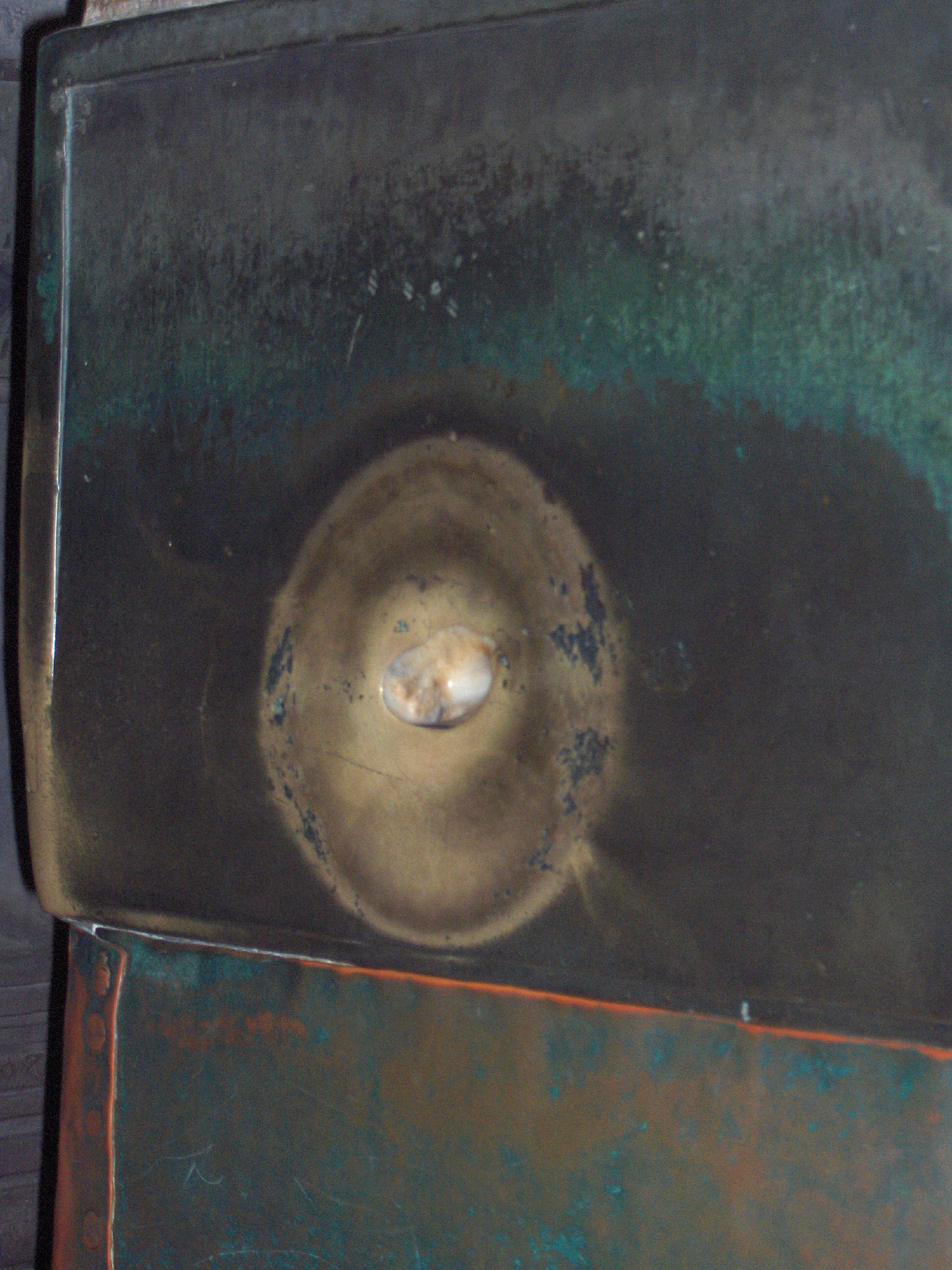 Hagia Sophia ; inside view : the "sweating column"; Istanbul, Turkey